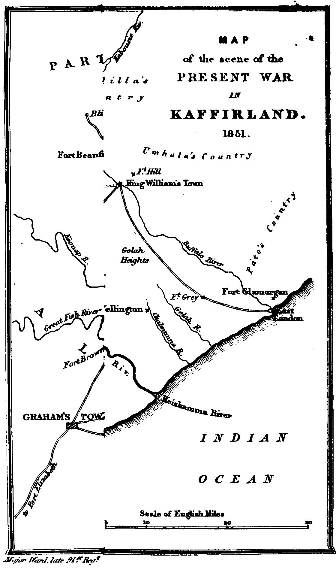 A sketch map of the region of South Africa called Kaffirland in the 1840s